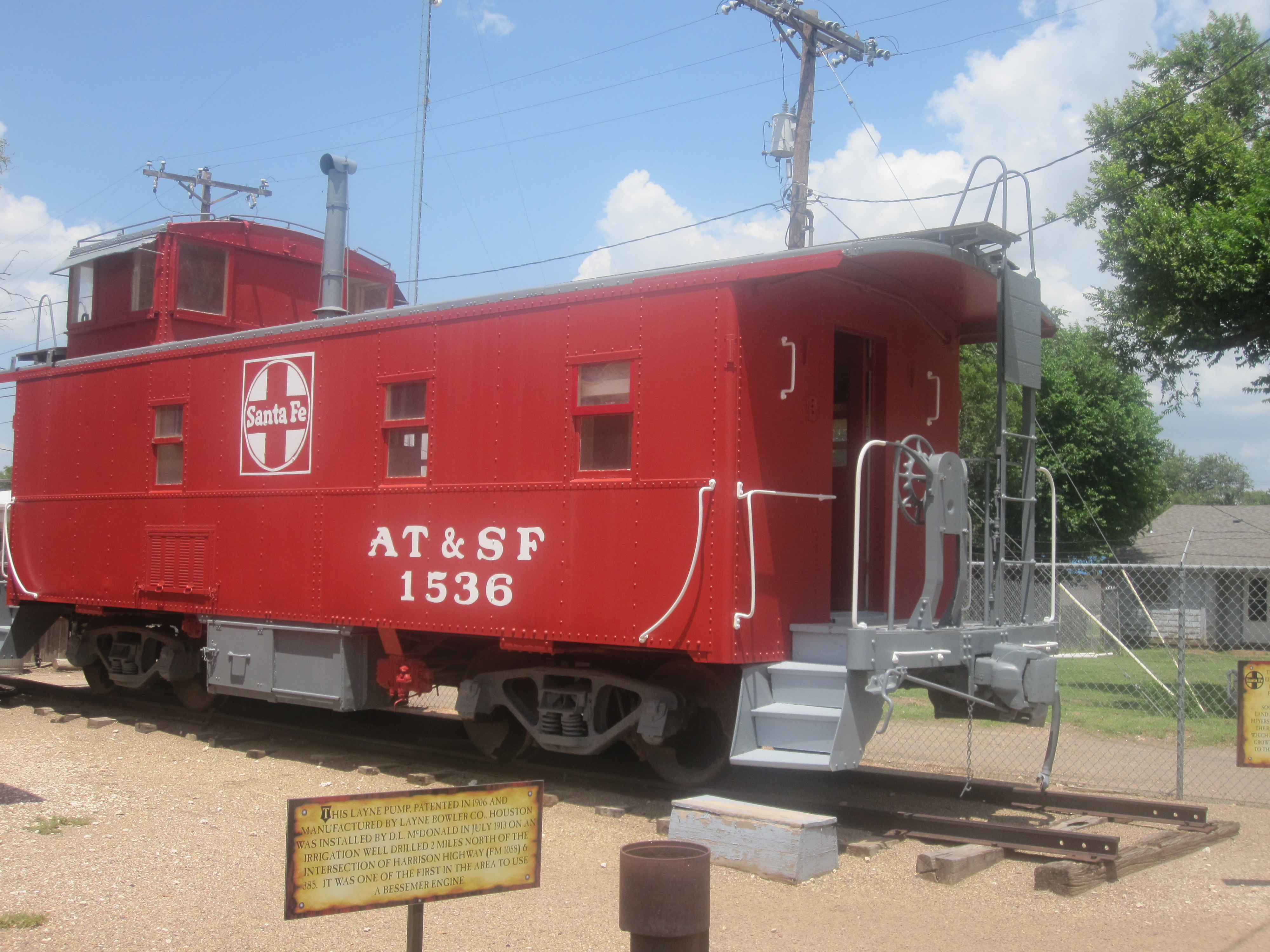 AT&SF caboose on display at the Deaf Smith County Historical Museum in Hereford, Texas.